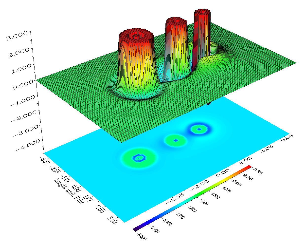 A graph depicting the laplacian electron density of the PCO anion.